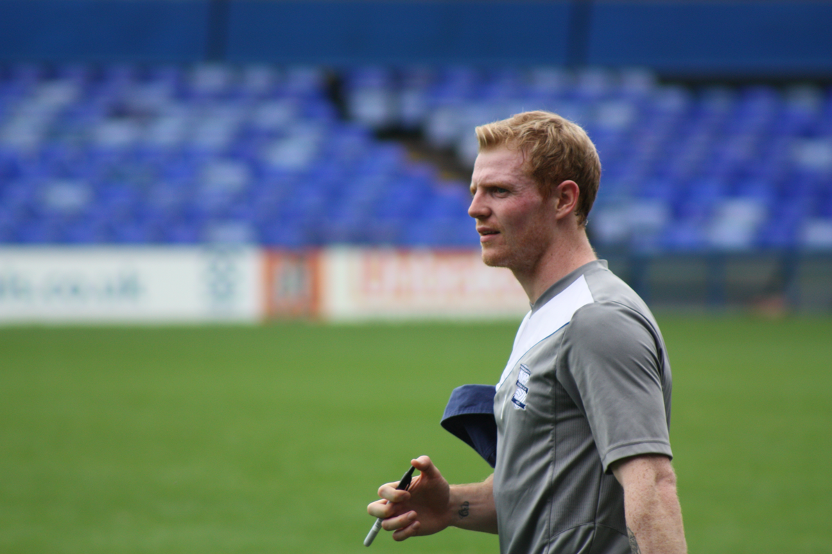 Chris Burke at Birmingham City open training session at St.Andrews' Stadium.